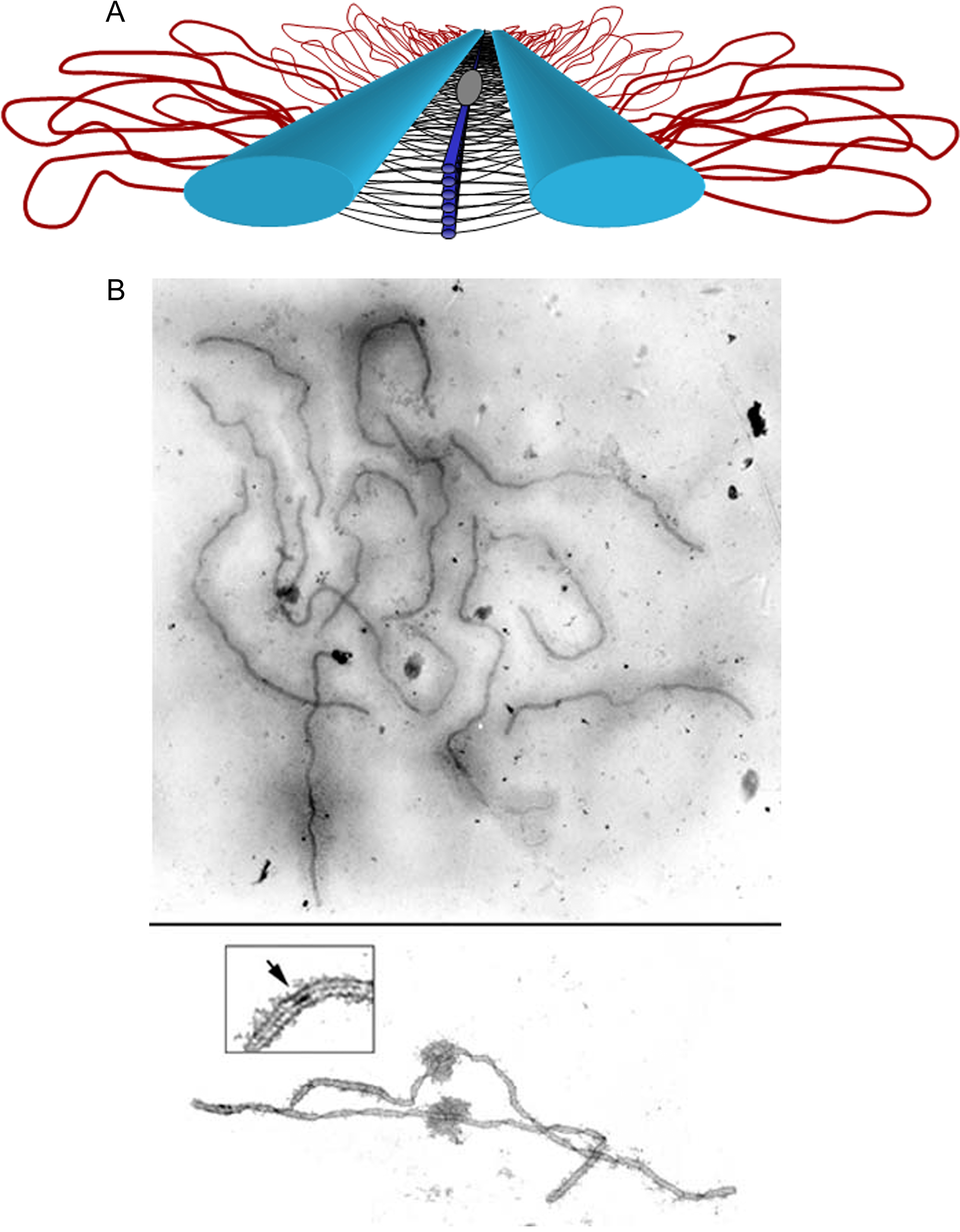 The Synaptonemal Complex. (A) Model of the SC. Lateral elements (light blue rods) of homologous chromosomes align and synapse together via a meshwork of transverse filaments (black lines) and longitudinal filaments (dark blue rods). The longitudinal filaments are collectively referred to as the “central element” of the SC. Ellipsoidal structures called recombination nodules (gray ellipsoid) are constructed on the central region of the SC. As their name implies, recombination nodules are believed to be involved in facilitating meiotic recombination (crossing over). The chromatin (red loops) of each homologue is attached to its corresponding lateral element. Because there are two “sister chromatids” in each homologue, two loops are shown extending laterally from each point along a lateral element. (B) Top: Set of tomato SCs. Chromatin “sheaths” are visible around each SC. Bottom: Two tomato SCs. The chromatin has been stripped from the SCs, allowing the details of the SC to be observed. Each SC has a kinetochore (“ball-like” structure) at its centromere. Recombination nodules, ellipsoidal structures found on the central regions of SCs, mark the sites of crossover events (see inset).